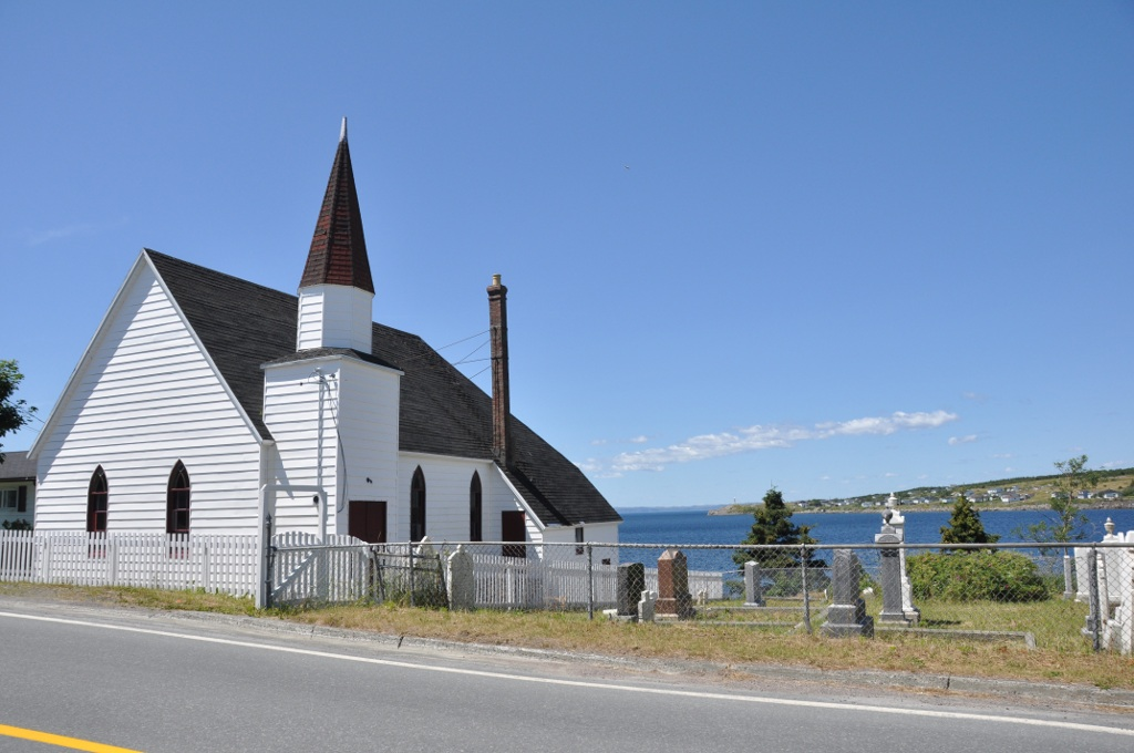 Heyfield Memorial United Church and Cemetery Municipal Heritage Site, Heart's Content, Newfoundland.